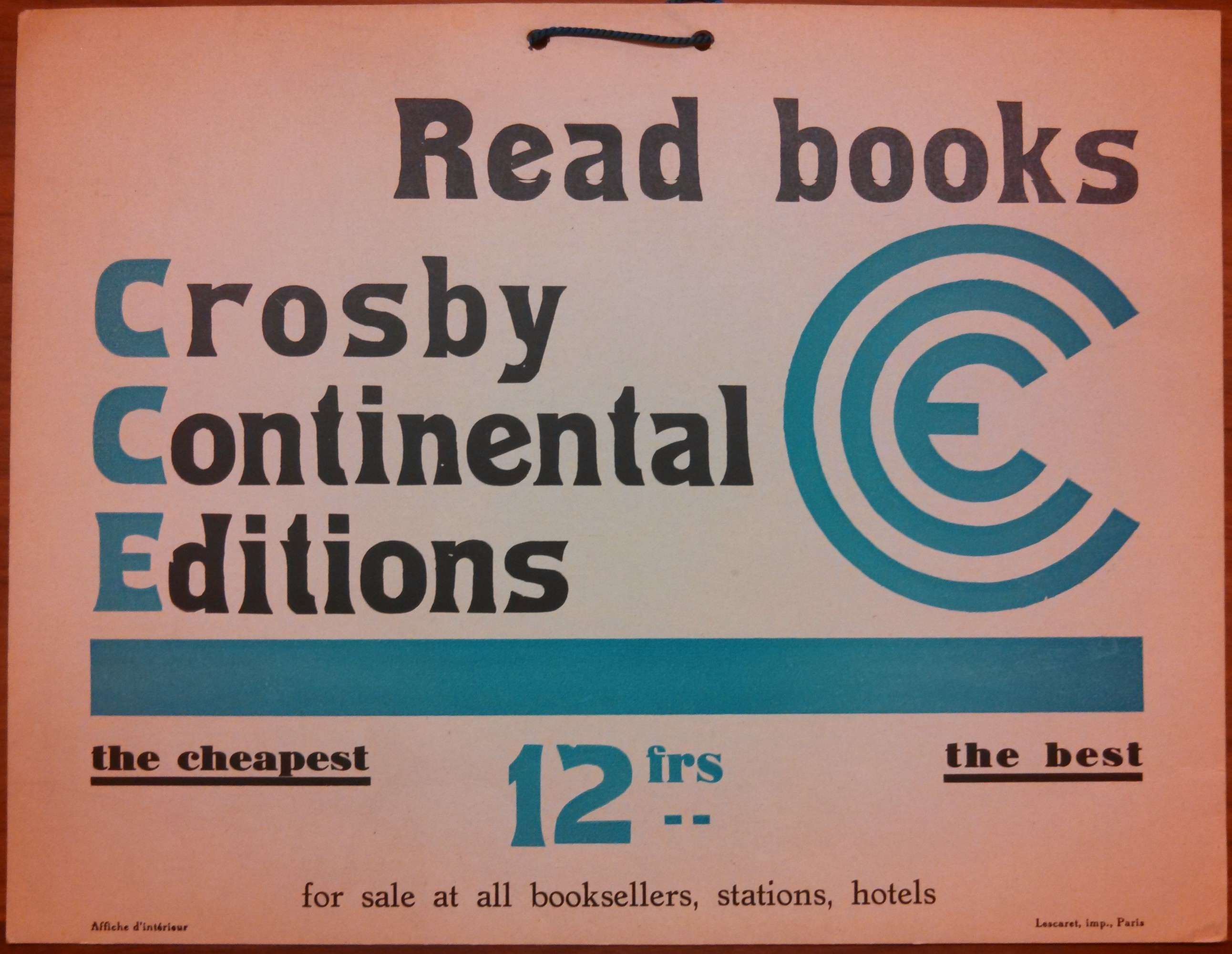 Undated advertising poster for the Crosby Continental imprint of the Black Sun Press. Printed in Paris between 1931-1951.